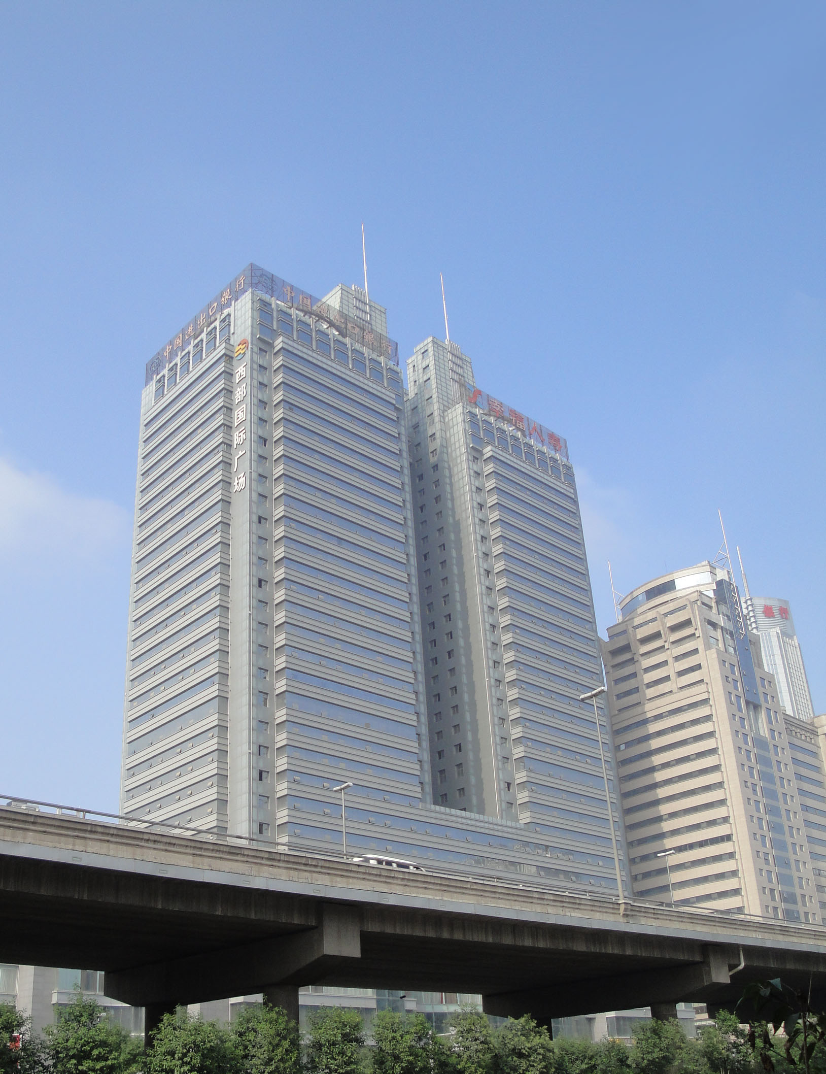 WestPort International Plaza,xi'an,CHINA